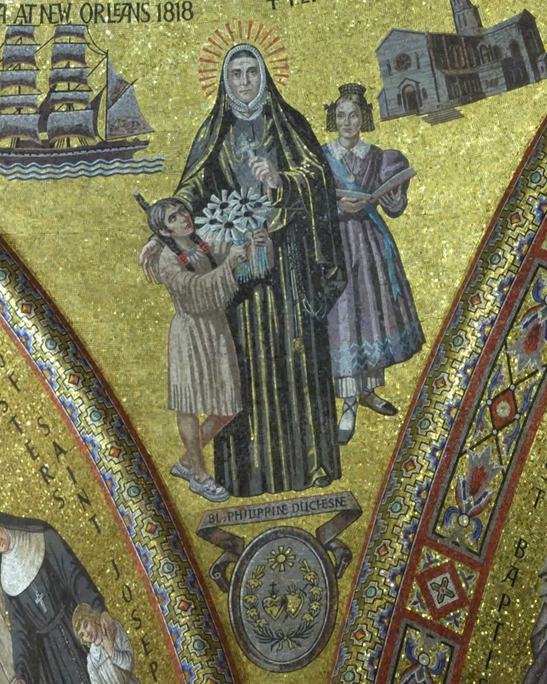 Mosaic of Saint Rose Philippine Duchesne in the Cathedral Basilica in St. Louis.